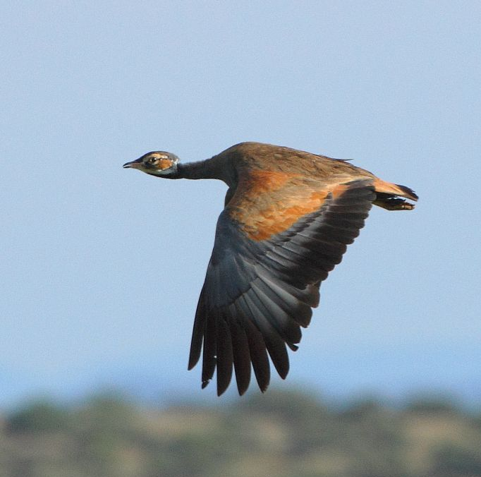 Blue korhaan (Eupodotis caerulescens) in flight at Garingboom Guest Farm, Free State, South Africa.